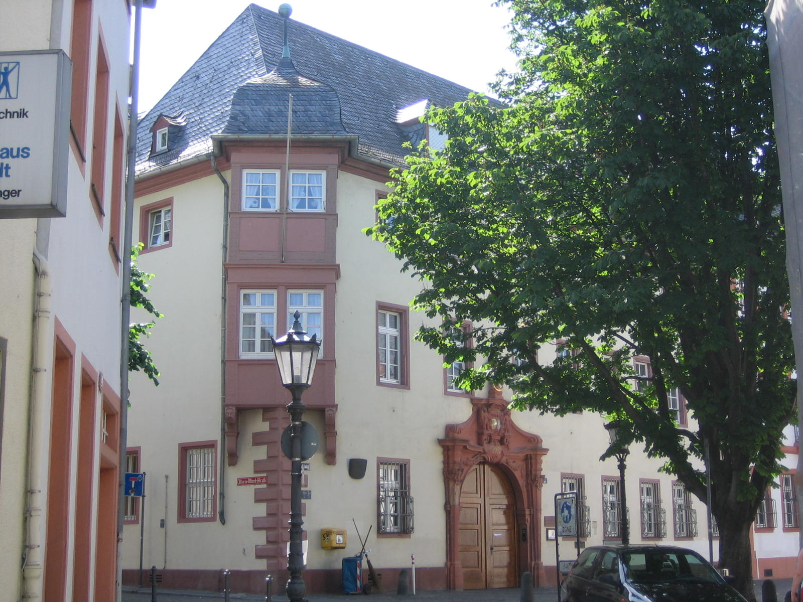 Old Palais Dalberg, now Institute of the Blessed Virgin Mary (Mary Ward) school